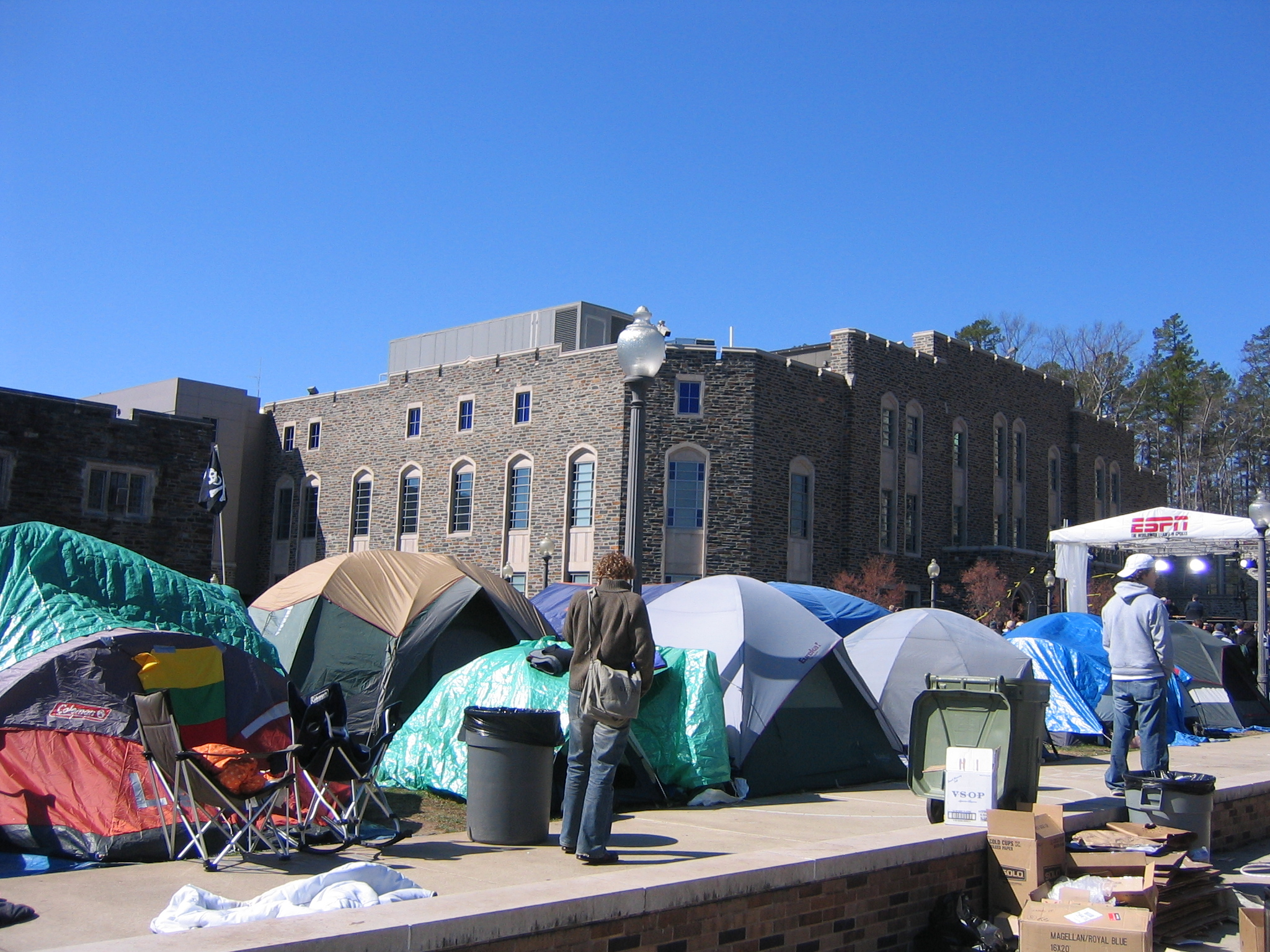 Kville, Cameron, and ESPN Tent